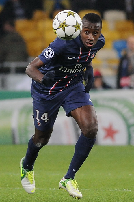 matuidi